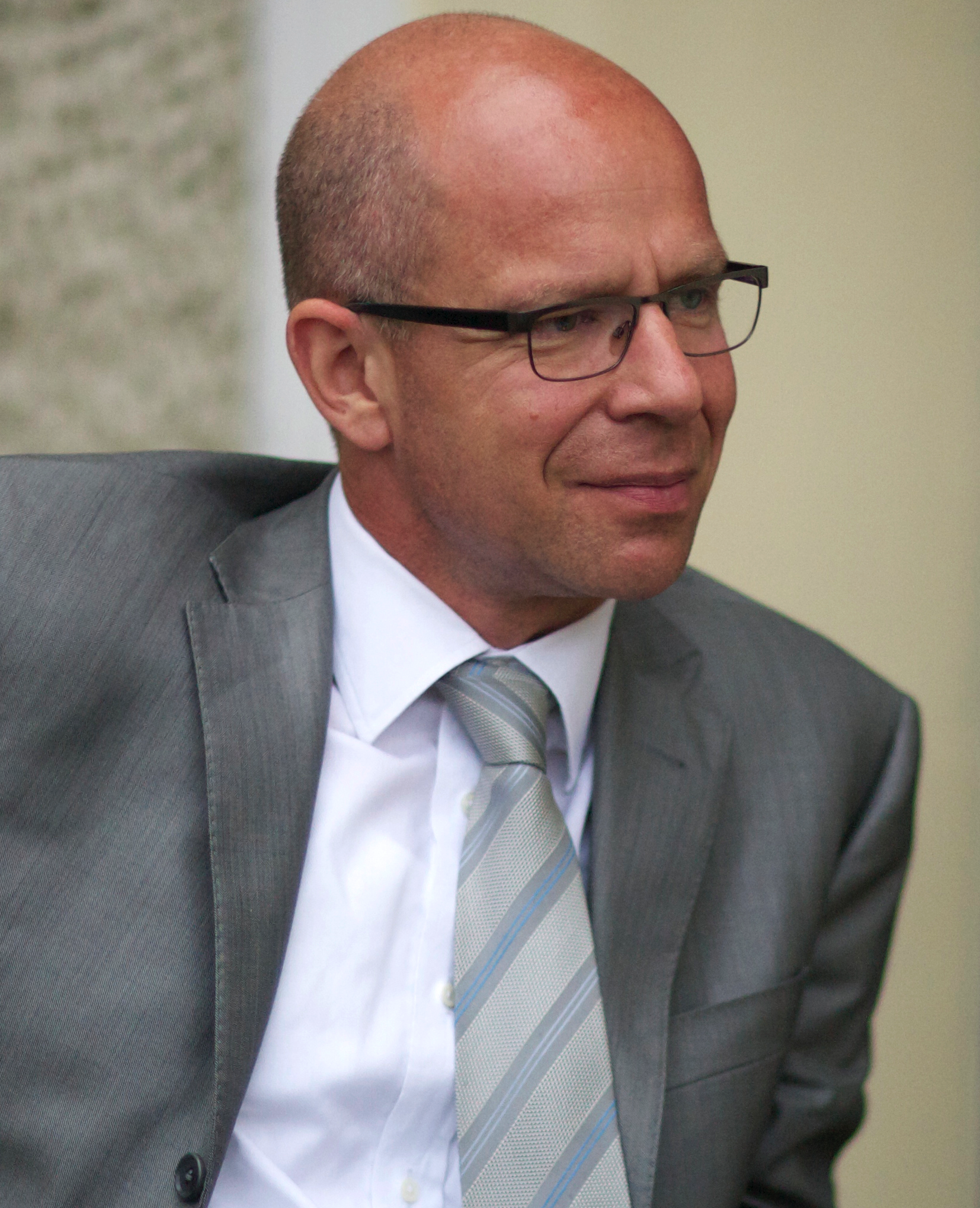 Taken in 2015.